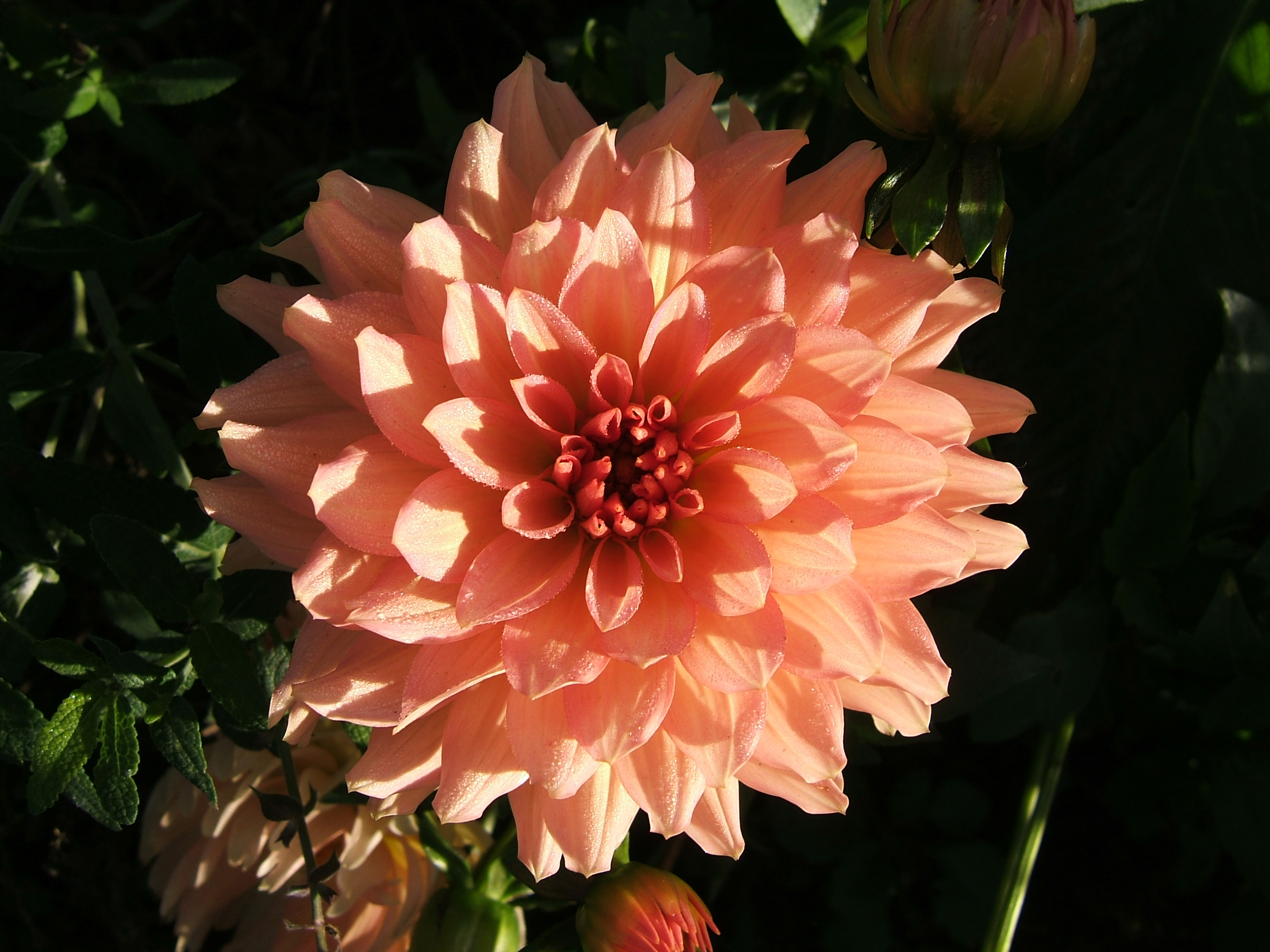 Dahlia with Morning Dew